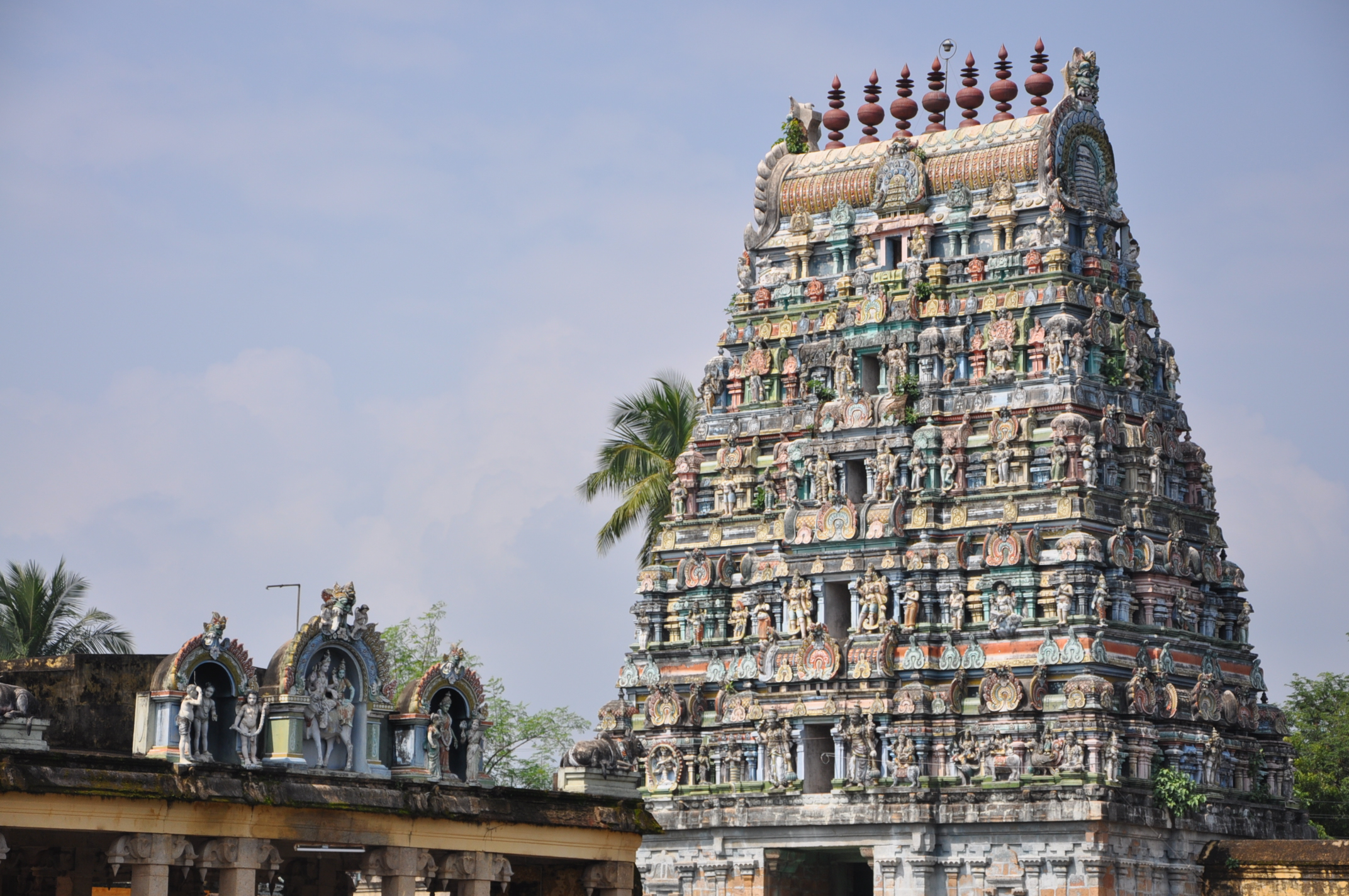 Pic taken at Sirkazhi, near Chidambaram in Tamilnadu.